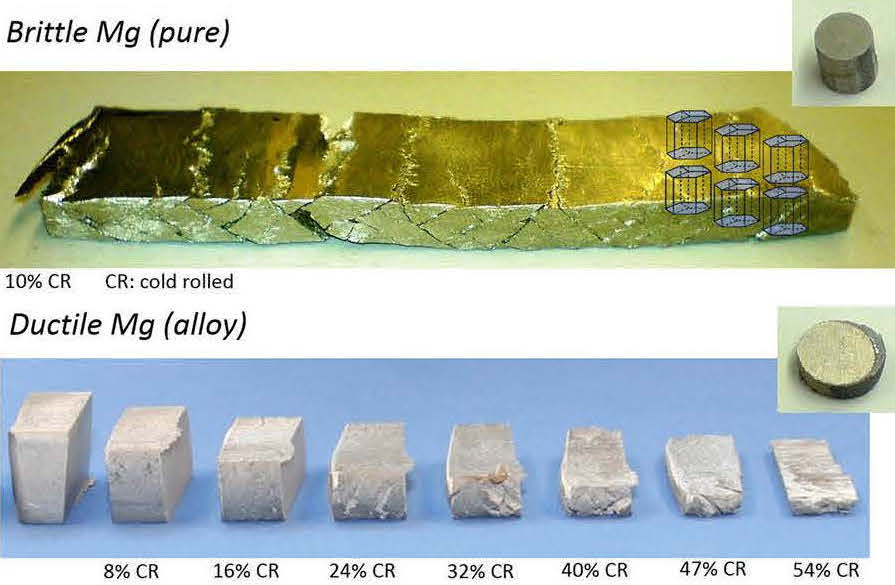 Pure polycrystalline magnesium failing in a brittle manner already at low deformations, shown here in the rolled state. Pure Mg fractured along macroscopic shear bands when cold rolled to 10% thickness reduction whereas Mg-1Al-0.1Ca could be cold rolled to 54% thickness reduction in several rolling passes of 8% thickness reduction per rolling pass; small sheet sections cut from the rolled sheet after each consecutive rolling pass are presented. Early failure of pure Mg occurs due to the restriction to mainly basal dislocation slip and tensile twinning.